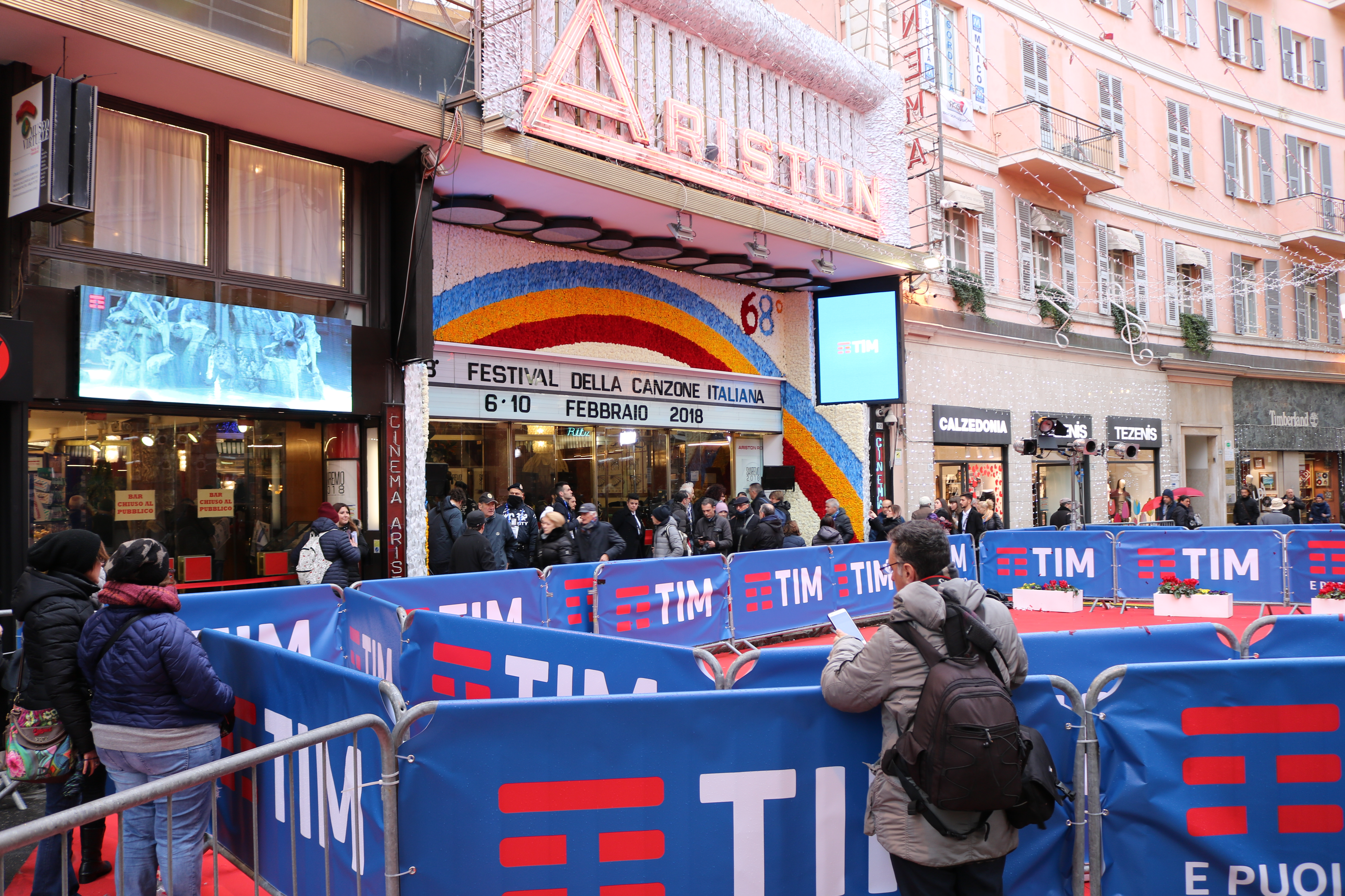 Sanremo - 2018